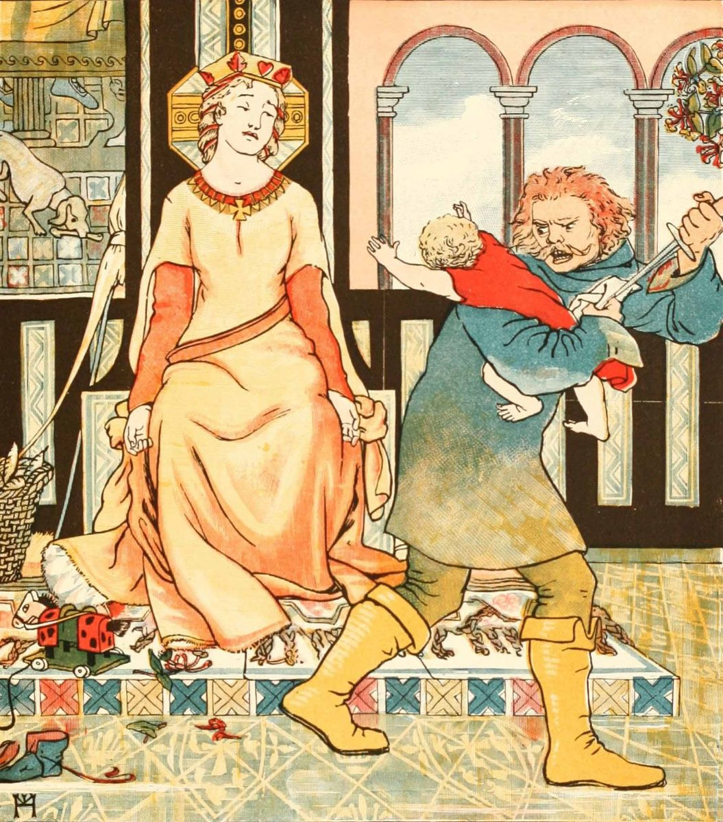 Illustration from Mary Eliza Haweis' Chaucer for Children (1882).